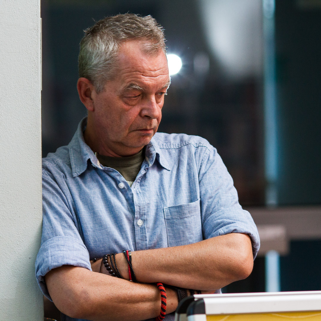 Paweł Smoleński on Authors’ Reading Month 2015, Wrocław, Poland